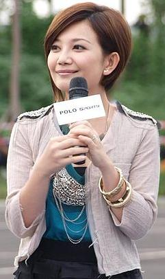 Fish Leong at Chengdu of Sichuan province China.